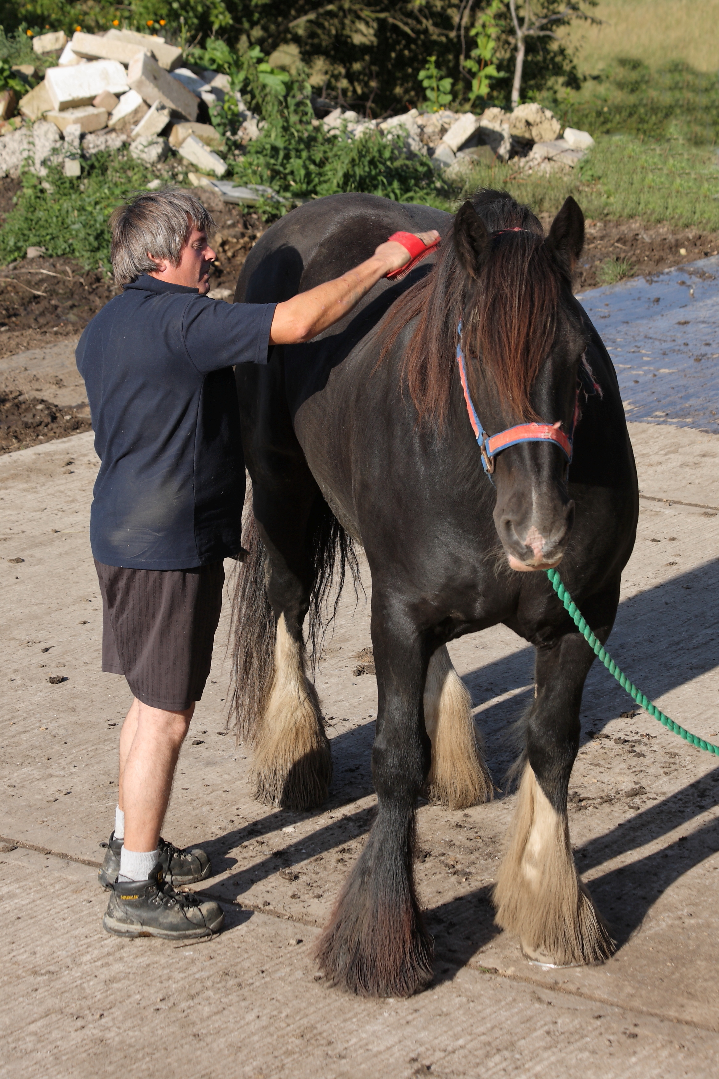 Max the shire horse enjoys the sun and the attention.